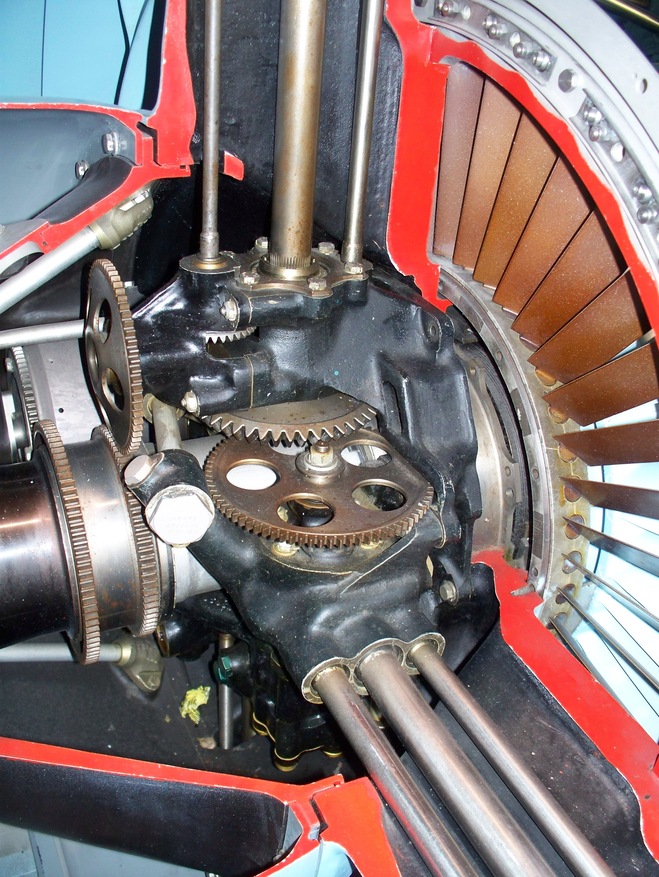 The Internal gearbox of the Rolls-Royce Pegasus in the Deutsches Museum in Munich.